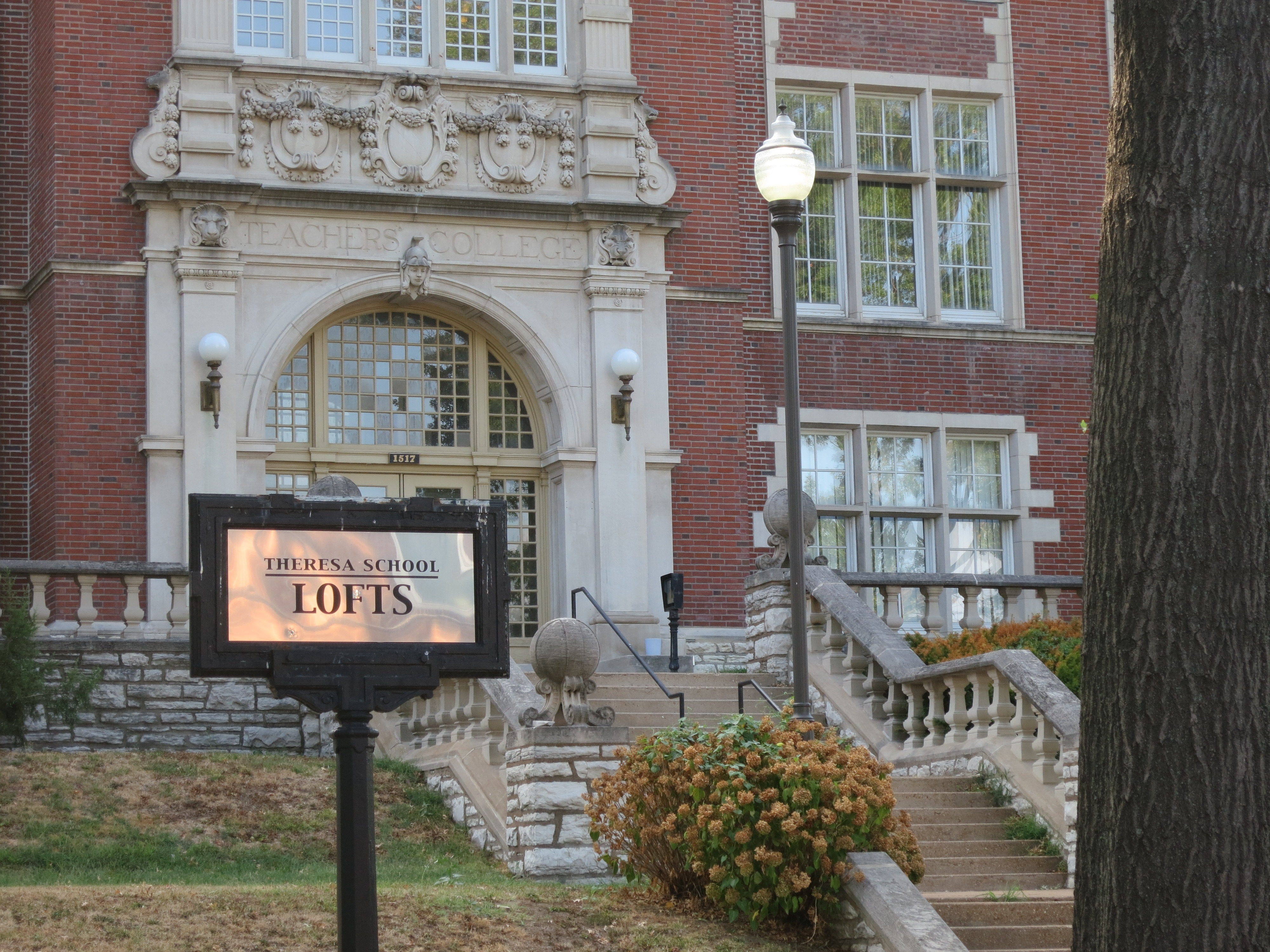 Theresa School Lofts